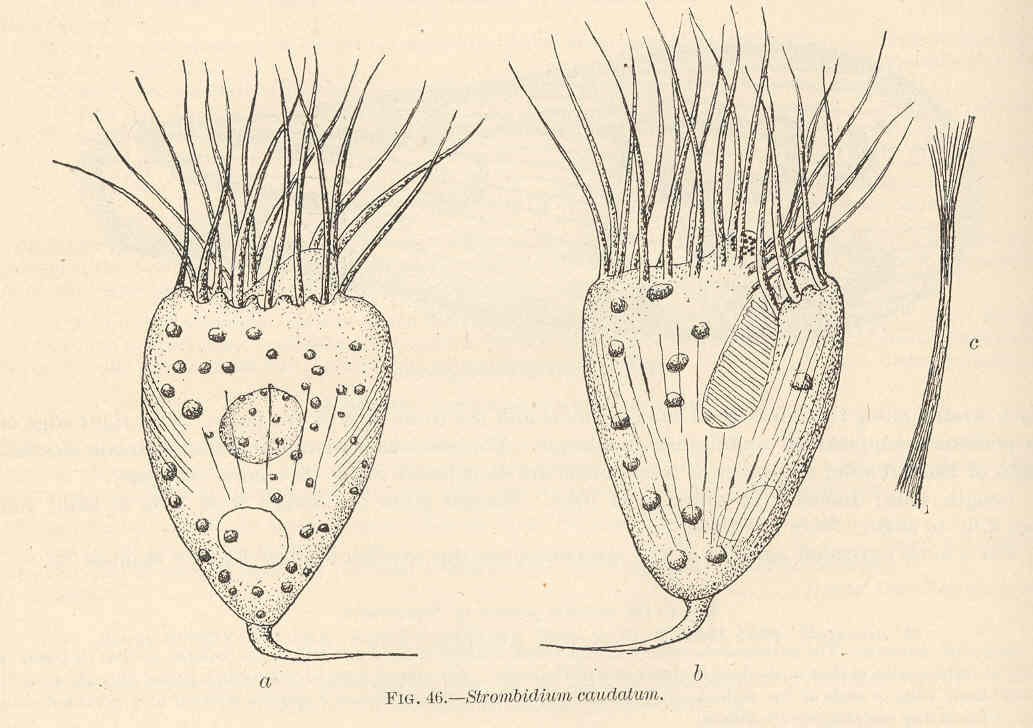 Strombidium caudatum Subject: Strombidium, Protozoa Tag: Invertebrates